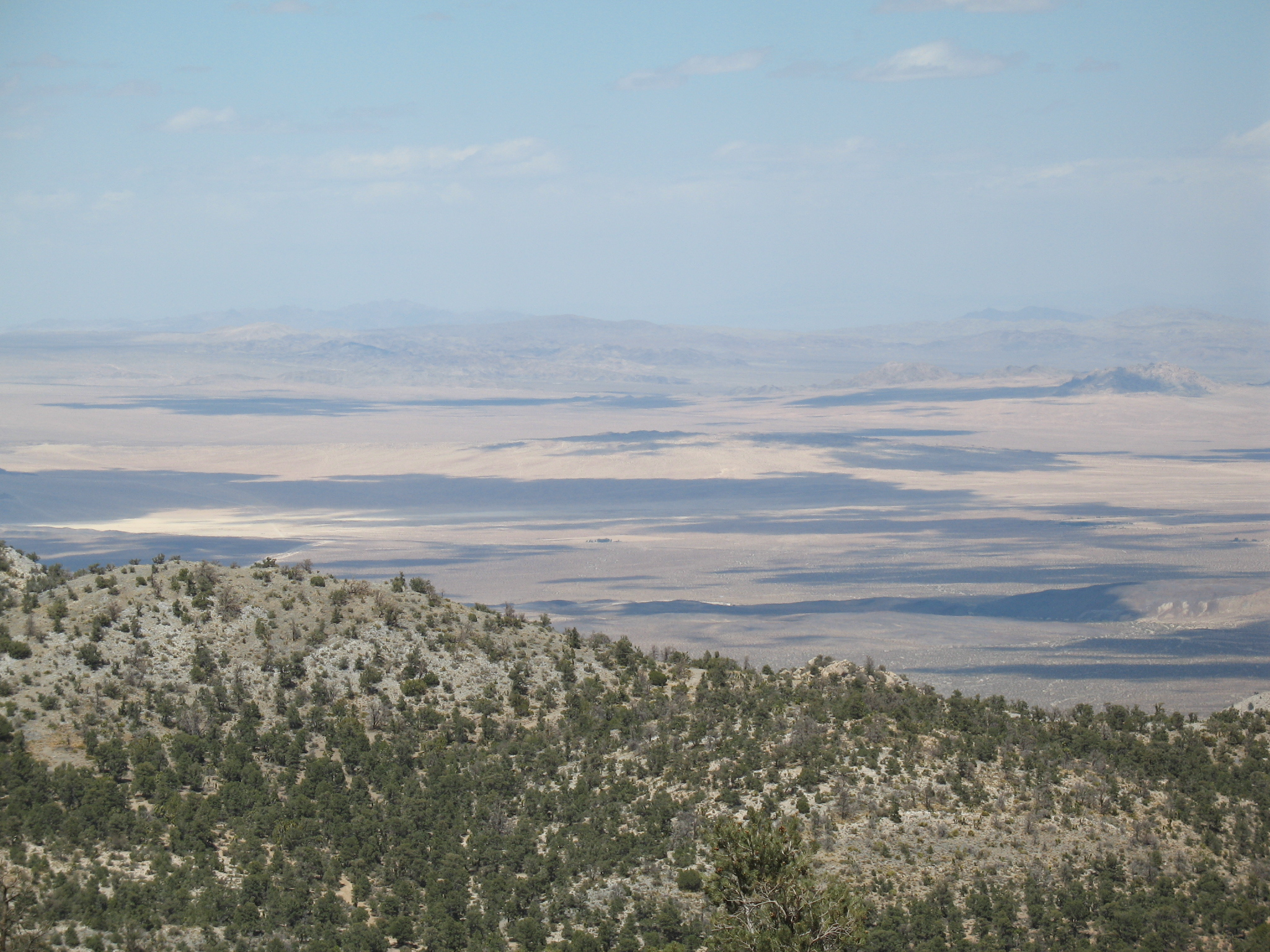 On the way down to Lucerne Valley, looking almost due north.